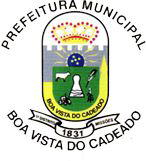 Coat of arms of the city of Boa Vista do Cadeado, Rio Grande do Sul, Brazil.